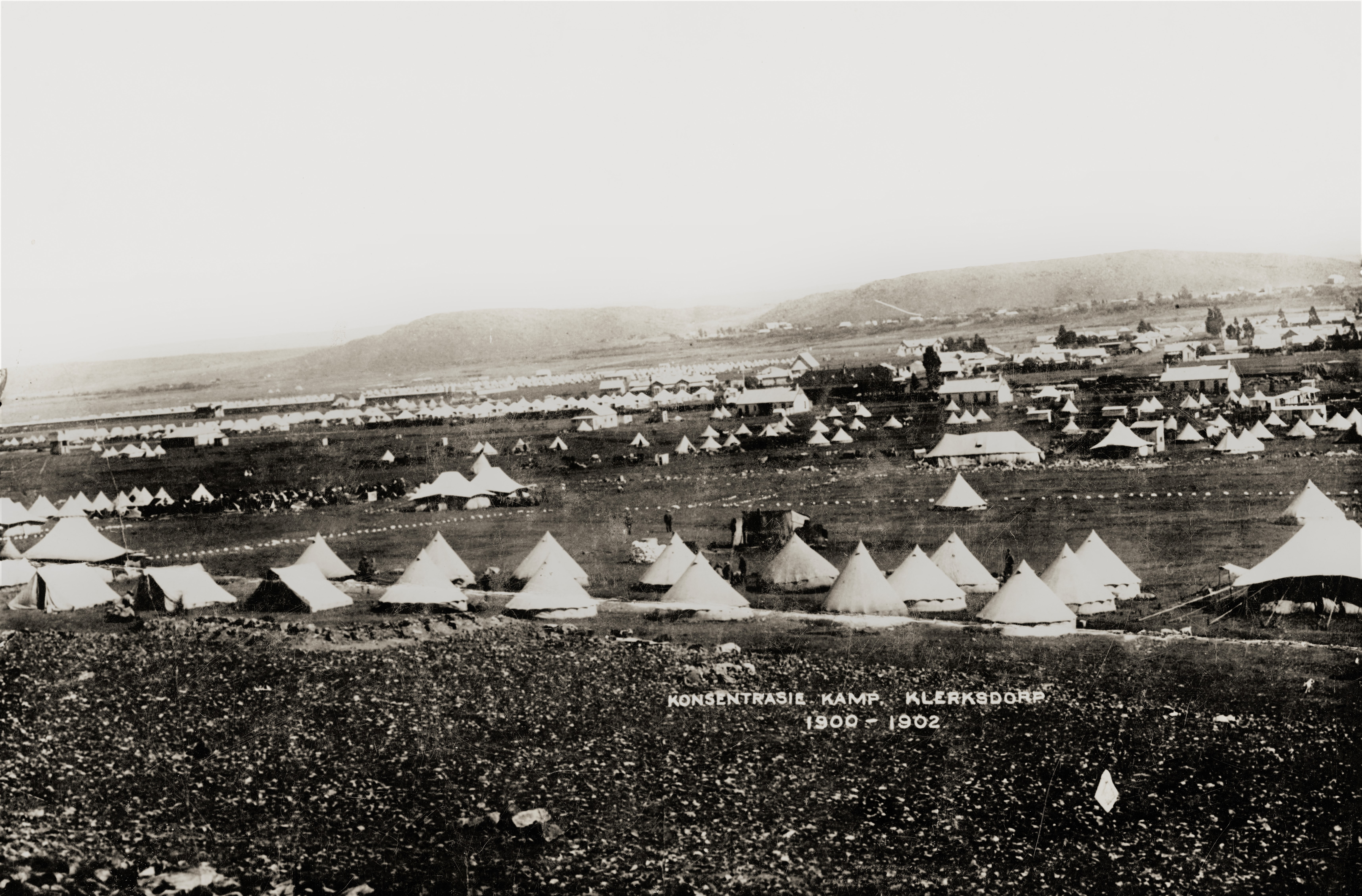 Neat rows of bell tents in the Concentration Camp for Whites, Klerksdorp